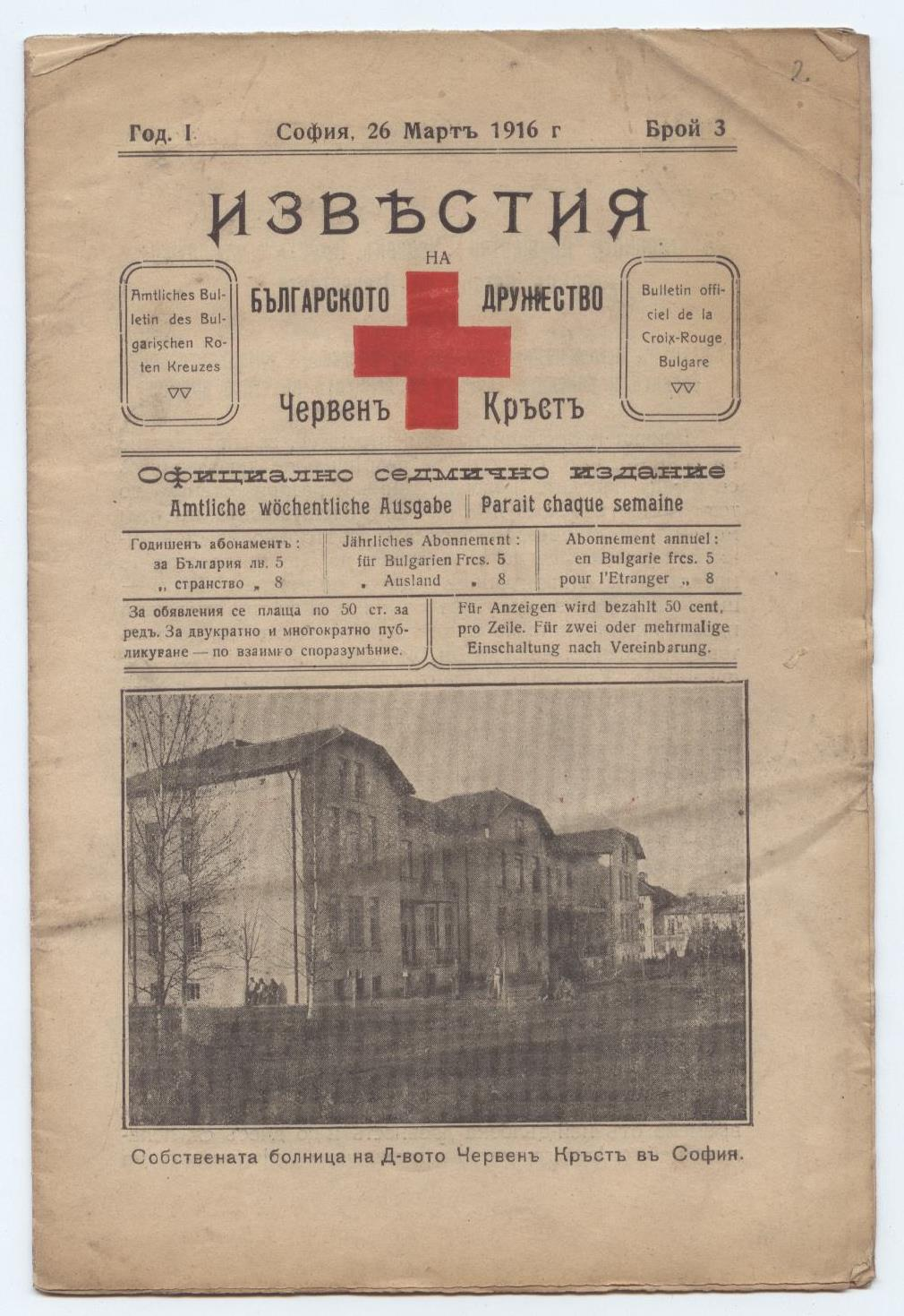 The cover of the "Izvestia", edition of the Bulgarian Red Cross, year 1, vol. 3, 26 March 1916